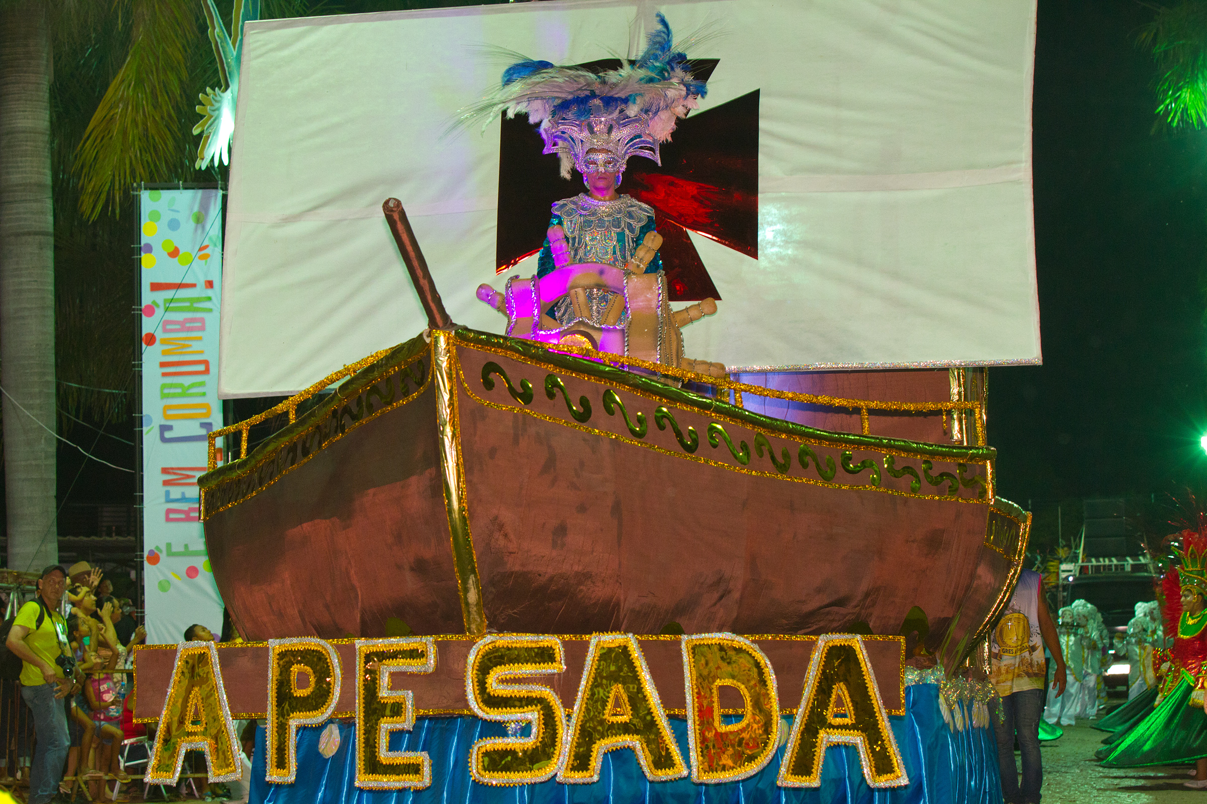 Carnaval float opening the display for Samba School "A Pesada" on the second night of Carnaval celebrations in Corumbá, Mato Grosso do Sul, Brazil.